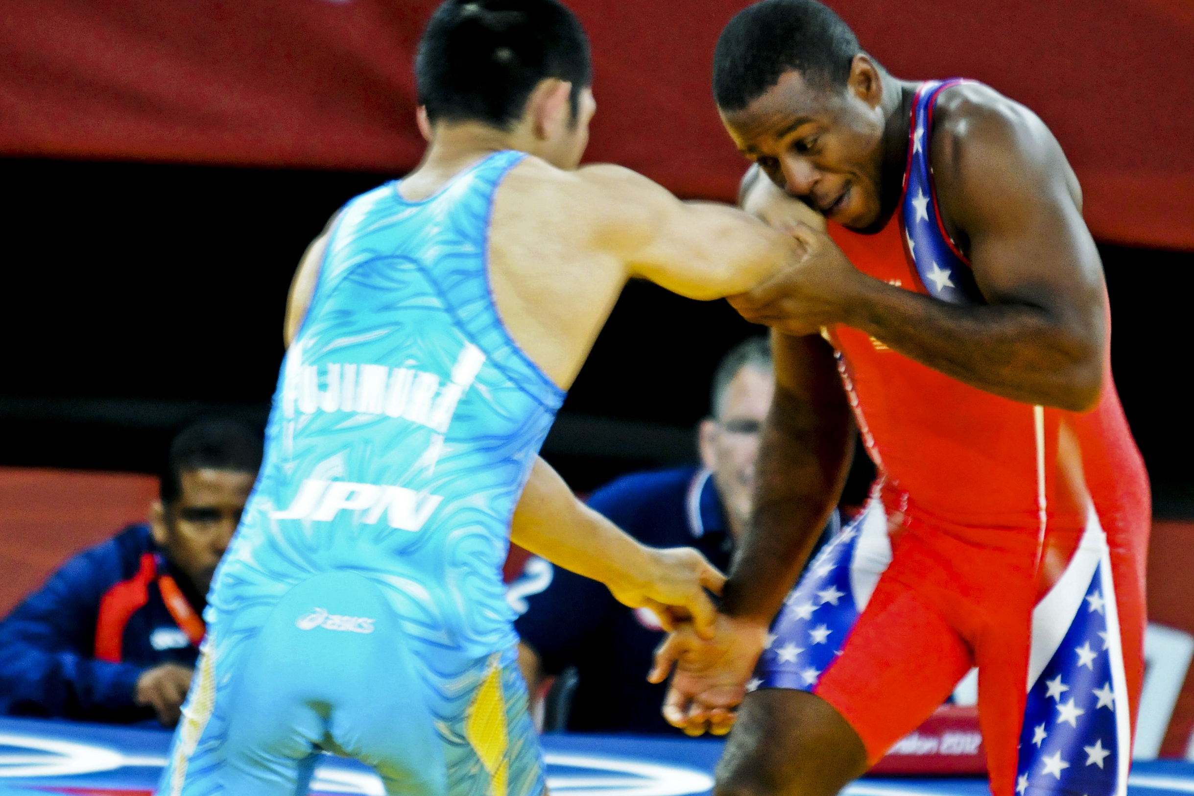 U.S. Army World Class Athlete Program wrestler Spc. Justin Lester, right, grapples with Japan's Tsutomu Fujimura in the first round of Olympic Greco-Roman wrestling in the 66-kilogram division during the Olympics in London, Aug. 7, 2012. Lester won that round, but lost to Hungary's Tomas Lorincz, who took the silver medal. DOD photo by Gary Sheftick